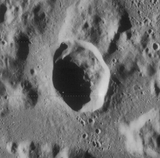 Oblique view of Delmotte, on the moon, facing west with north at top.